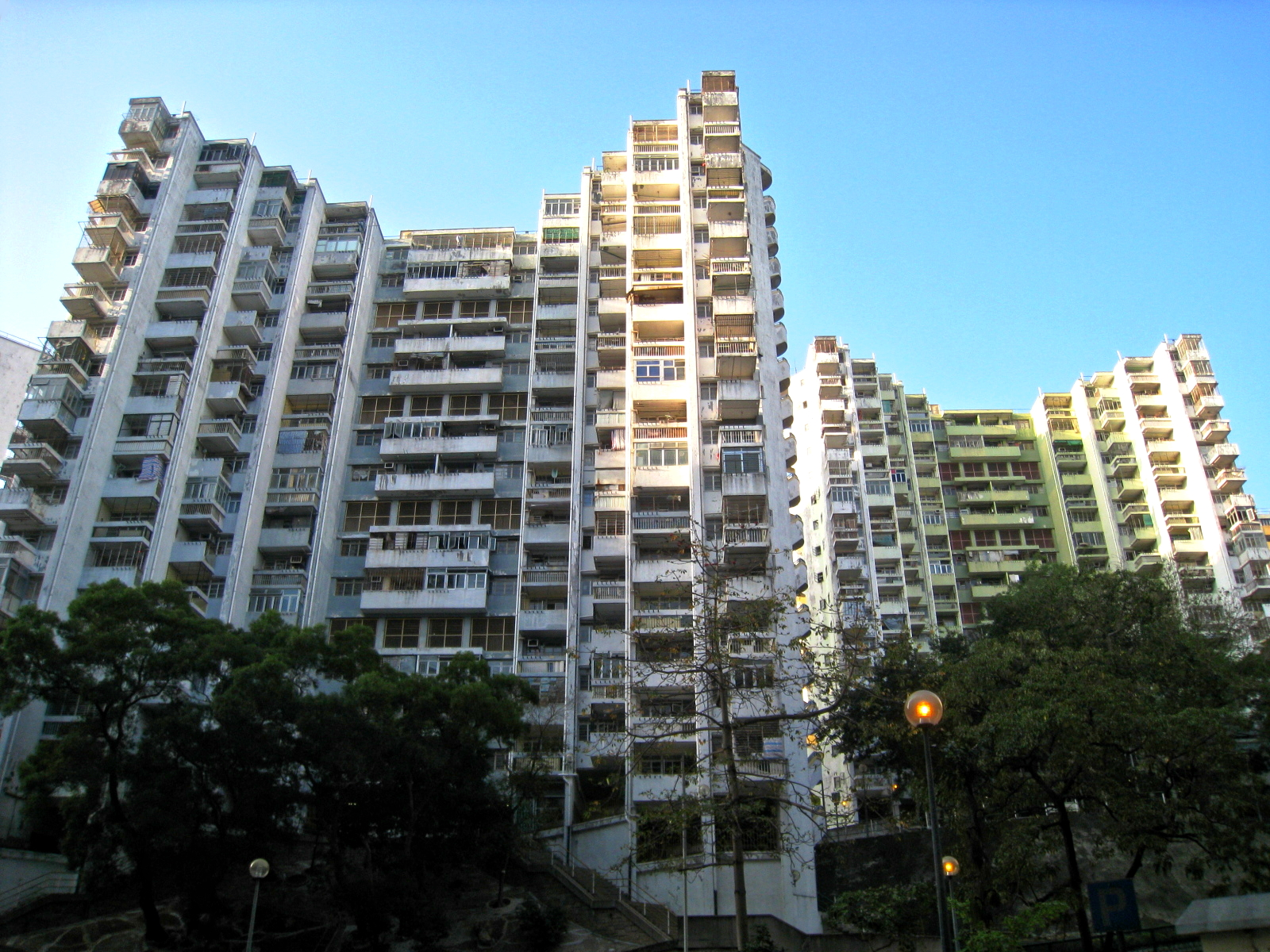 So Uk Estate Cedar House & Maple House 蘇屋邨